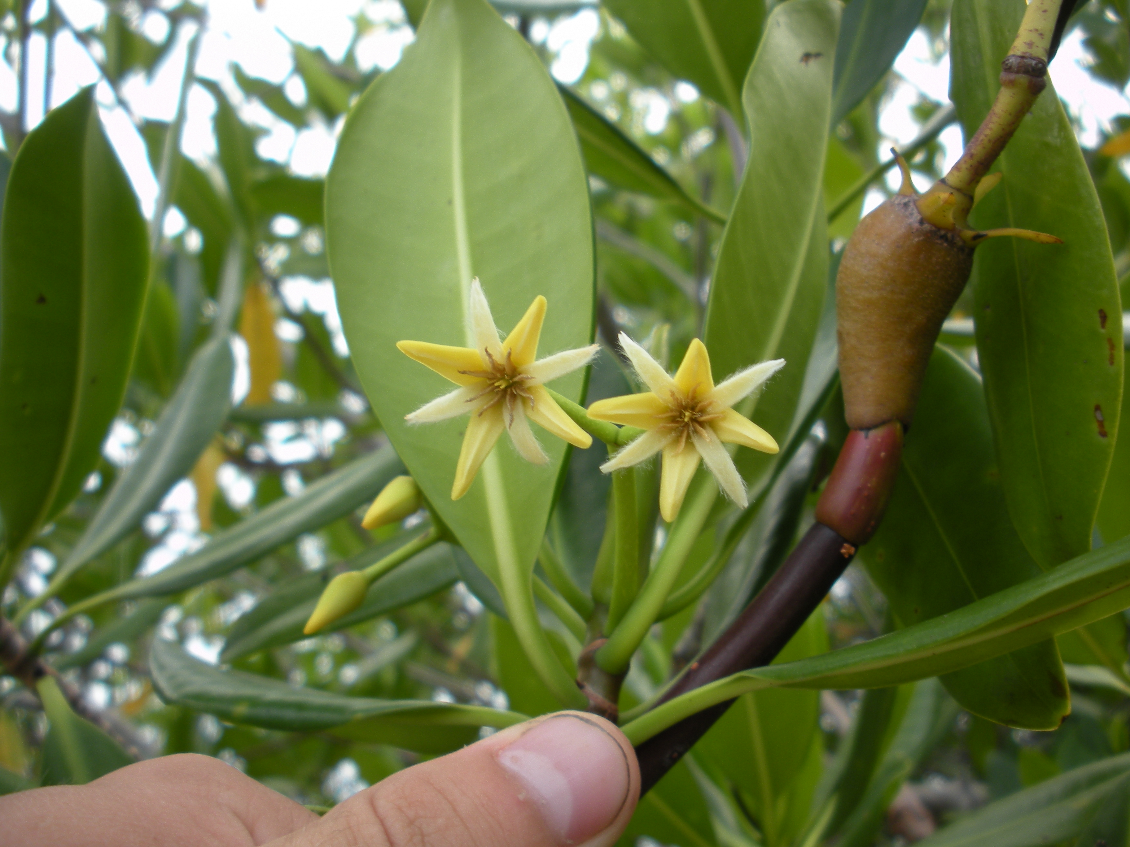 Rhizophora mangle flowers in Jobos Bay National Estuarine Research Reserve, Aguirre, Puerto Rico